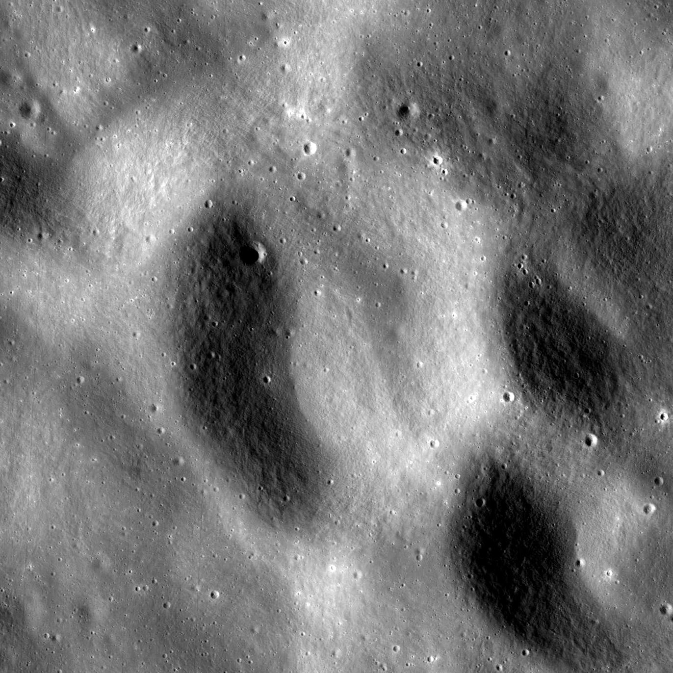 Small (1.3×1.6 km) crater Isabel on the Moon, in western Mare Imbrium. Centered at 28.18°N, 325.95°E (according to JMARS). Photo by Lunar Reconnaissance Orbiter, made with Narrow Angle Camera 16 January 2012 from altitude 144 km. Sun elevation is 23.1°. Width of the photo is 2.53 km, north is up.